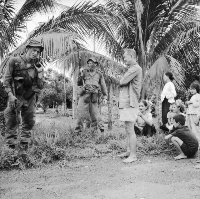 A group of Vietnamese found in a house by soldiers of the 5th Battalion, The Royal Australian Regiment (5RAR), are guarded while Private Hugh Evans of Hobart, Tas, signals in the information. Afterwards these soldiers drew their first fire of Operation Hardihood. The two soldiers carry World War 2 vintage 9mm Owen guns and have smeared their faces for camouflage and to dull their shiny skin. Identified at centre rear is Lieutenant (later Major General) John Curtis Hartley.